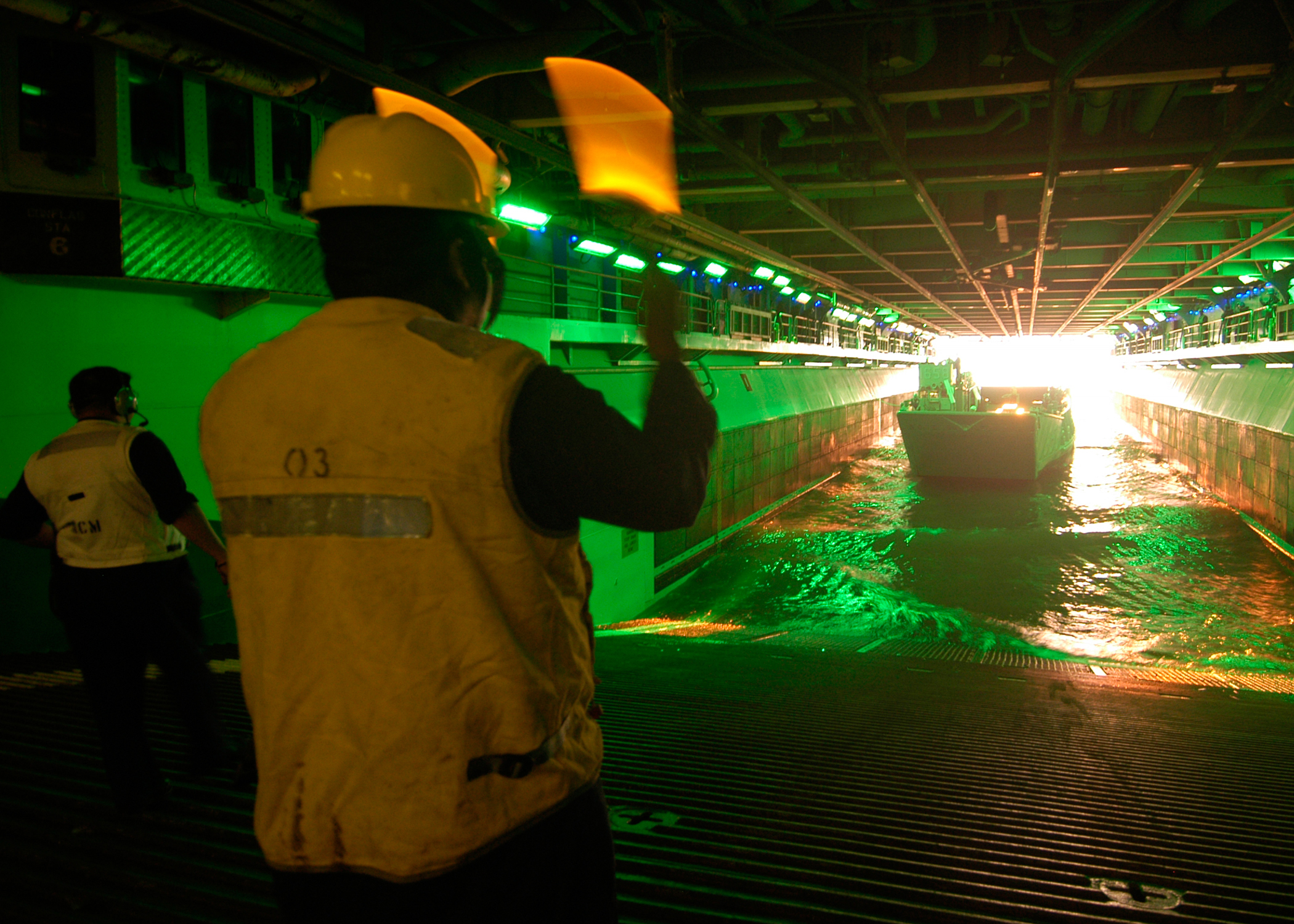 050621-N-8053S-098 Atlantic Ocean - Boatswain's Mate 3rd Class Kendrell Blackmon directs a Landing Craft Unit (LCU) during wet well operations on board amphibious assault ship USS Wasp (LHD 1). Wasp was recently outfitted with an experimental lighting configuration and is currently testing its effectiveness during her well deck certification.